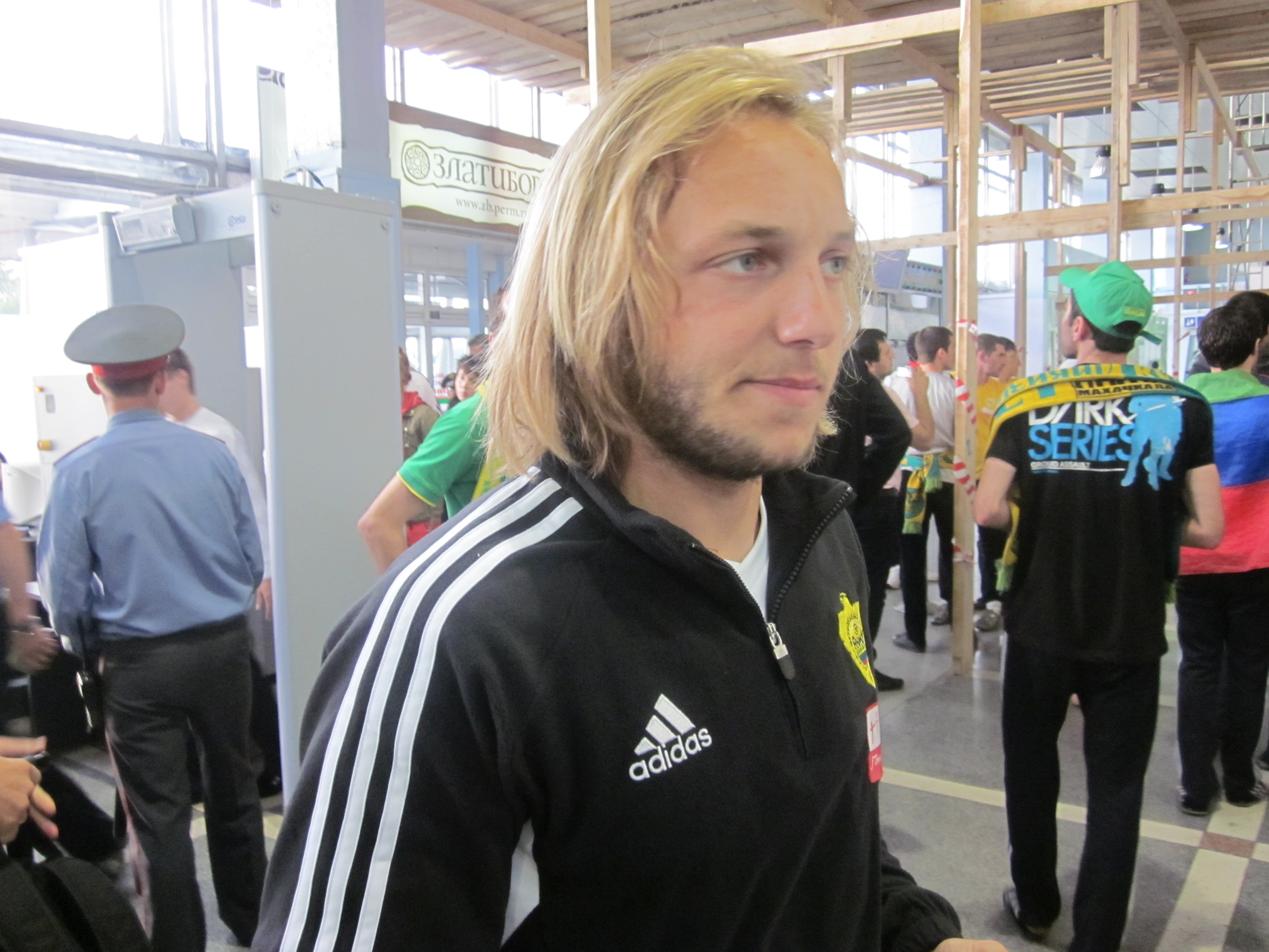 Irakli Klimiashvili